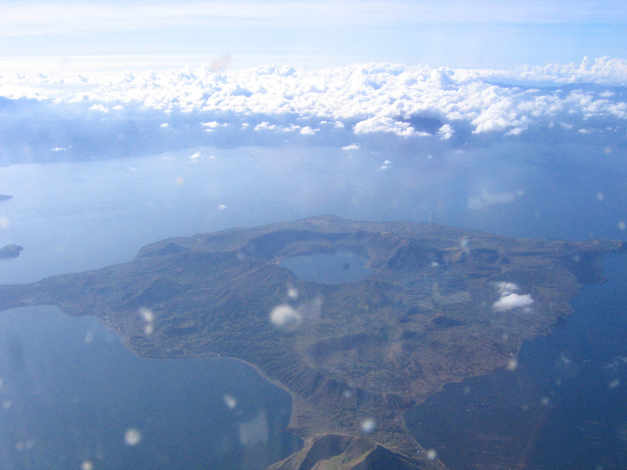 Aerial photograph of Taal Volcano, taken on a flight from Manila to El Nido.